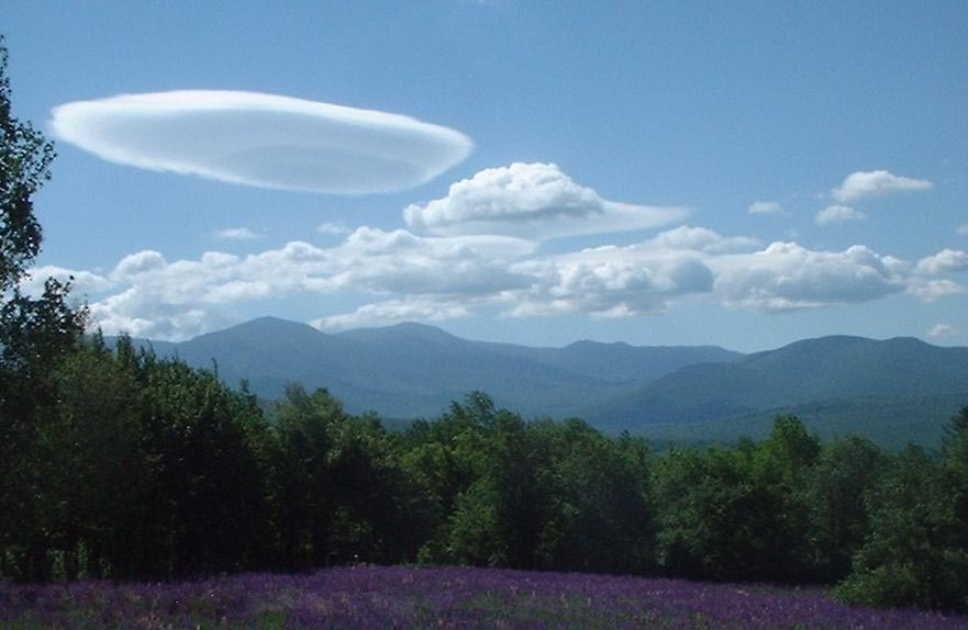 Lenticularis cloud formation over Mt Wash, 2004